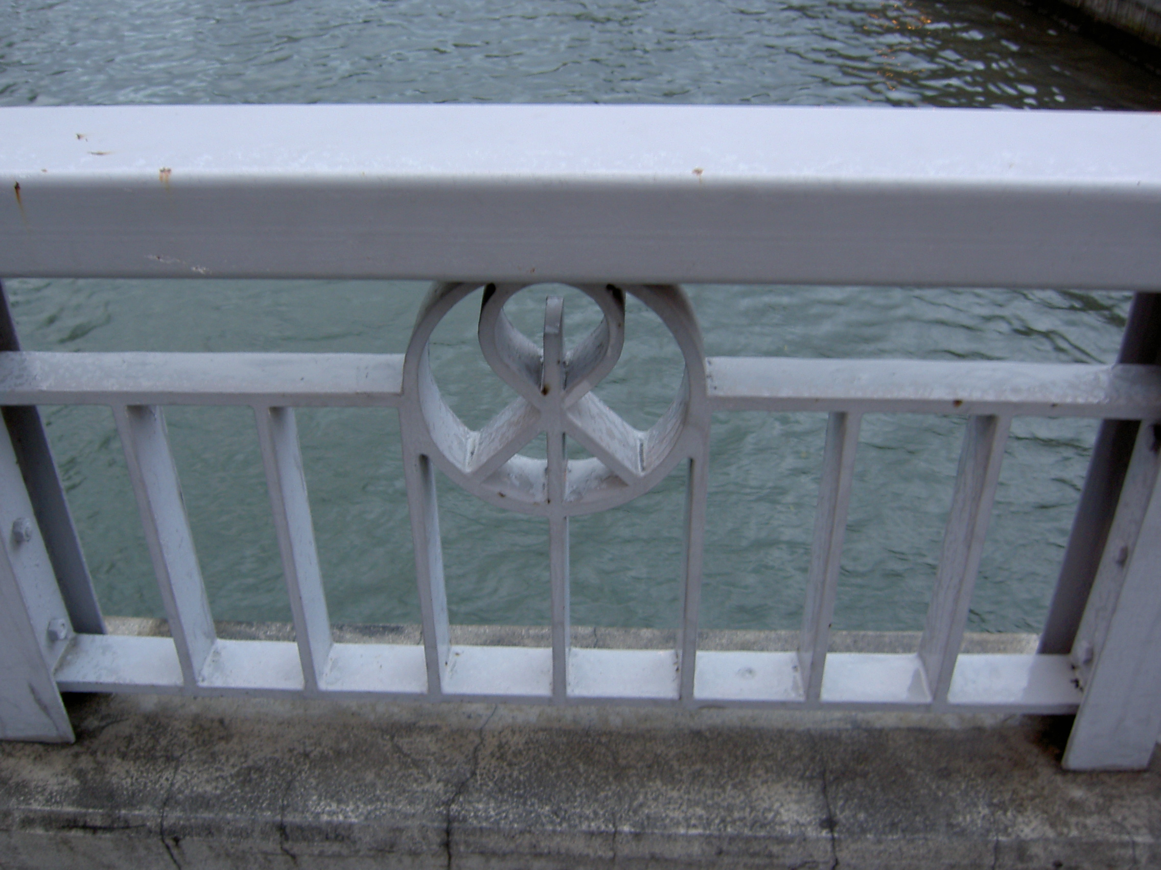 City symbol of a Naniwa Bridge handrail. Chuo-ku, Osaka-shi, Osaka, Japan.